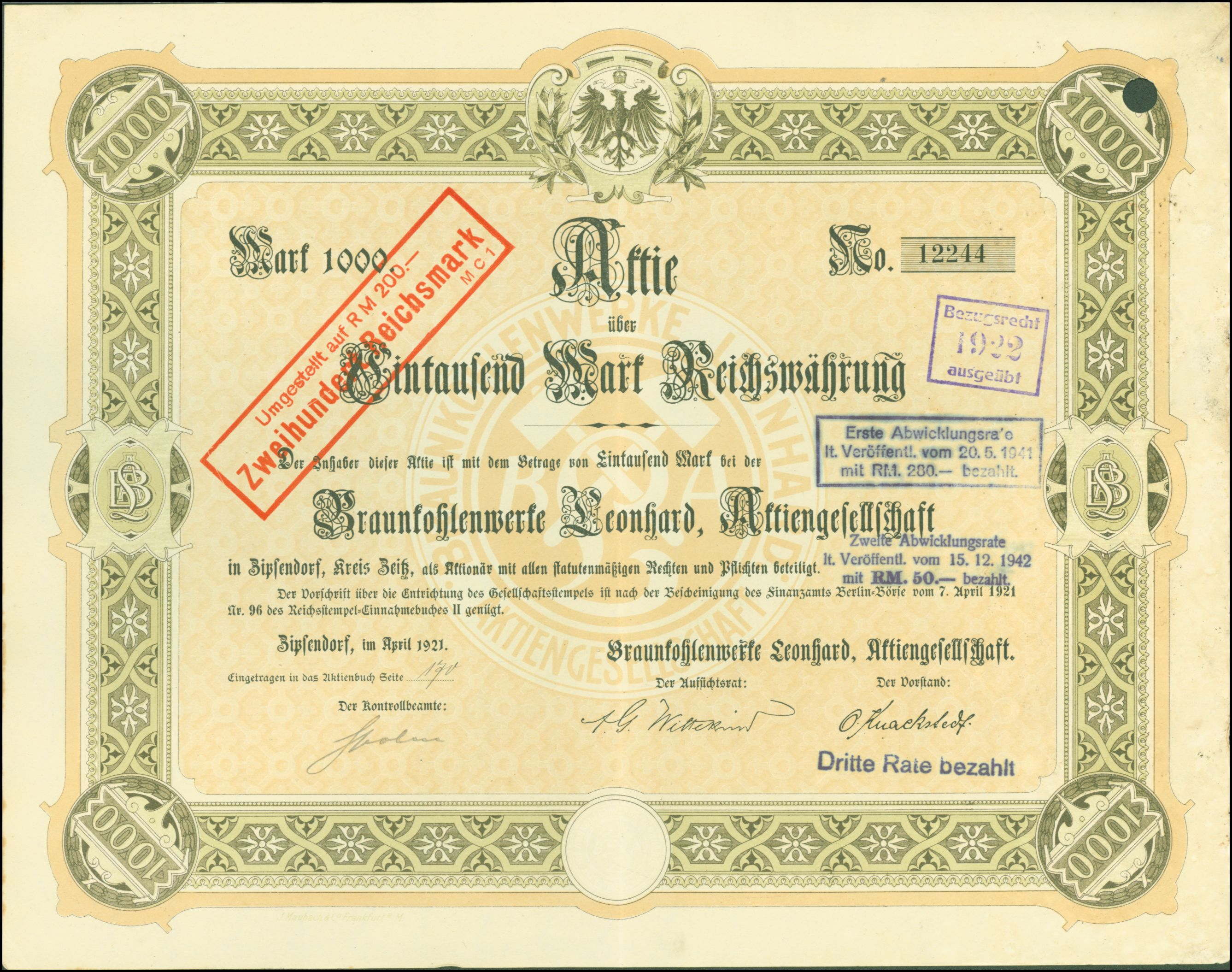 Share of the Braunkohlenwerke Leonhard, issued April 1921